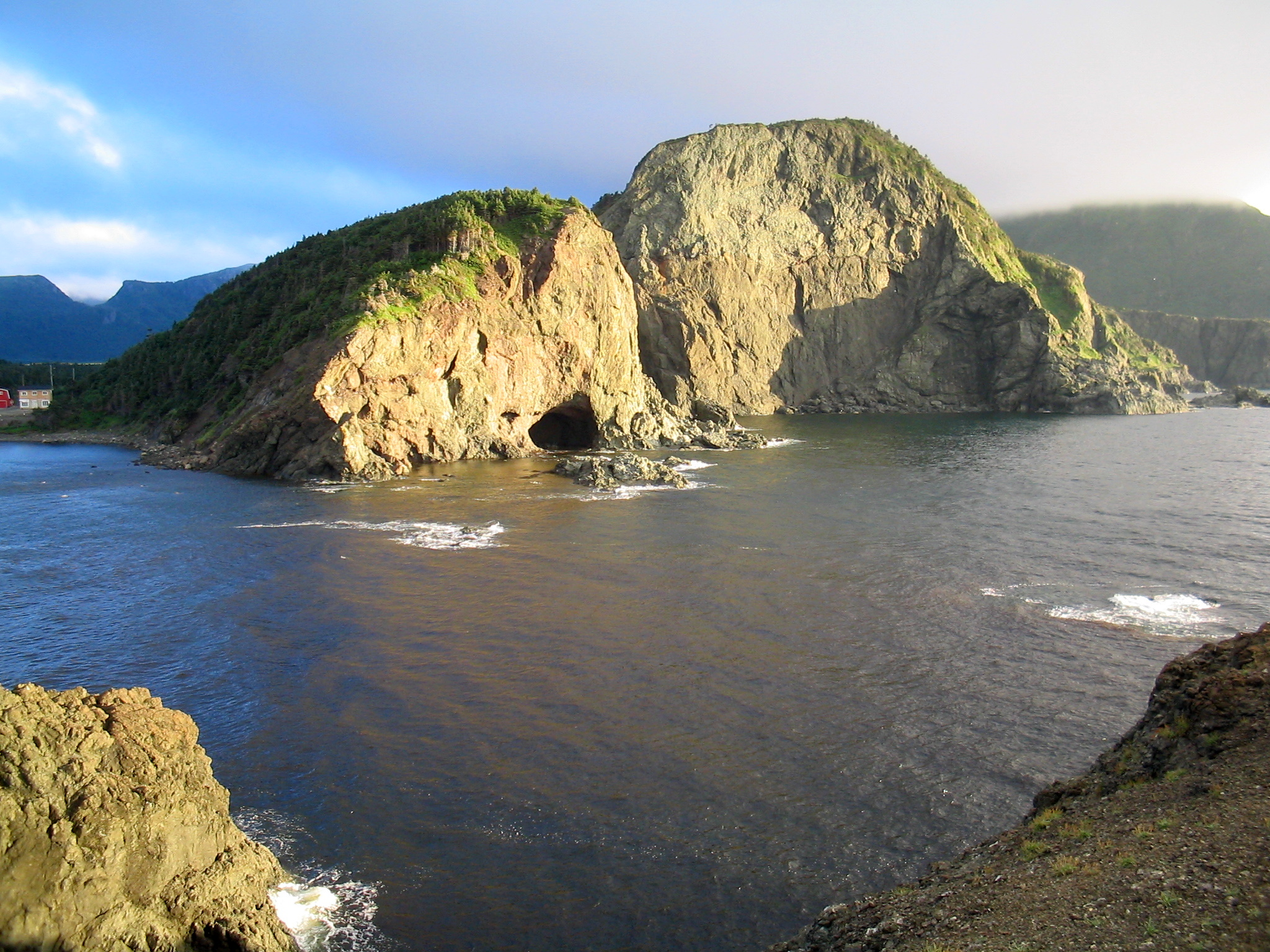 Looking across the cove's mouth at the cave.